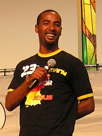 Cacau (football player of VfB Stuttgart) at a worship of the evangelian parish Heidelberg